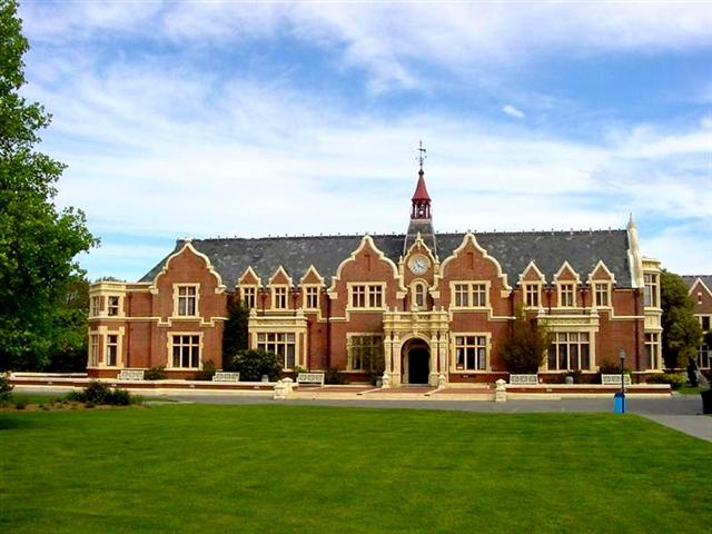 Ivey Hall / Library Lincoln University (New Zealand). New Zealand Historic Places Trust Register number: 273.